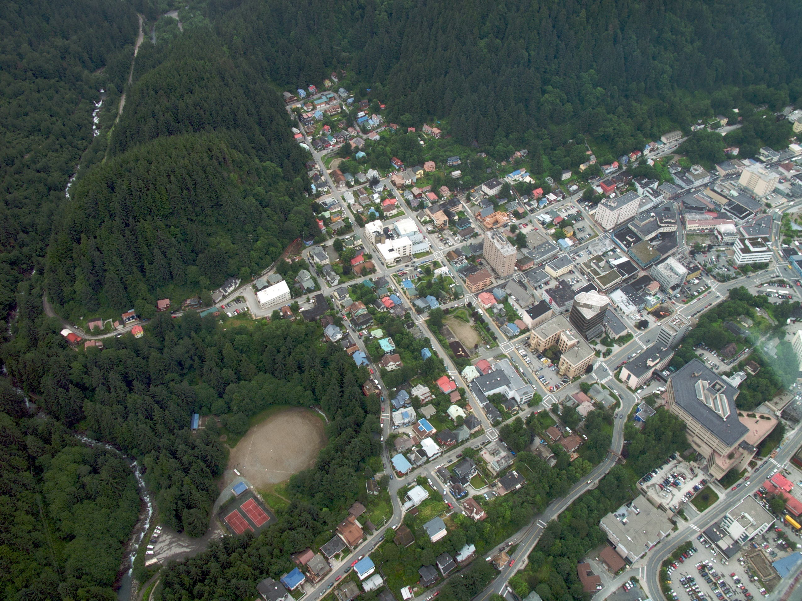 Juneau, Alaska, USA